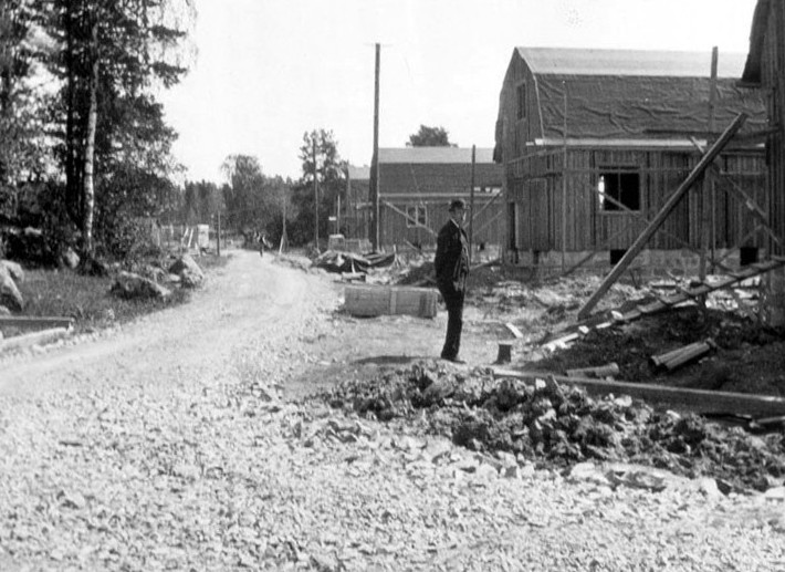 Olovslundsvägen från Kojgränd i blivande Olovslund småstugeområde, Bromma, Stockholm. Till vänster syns husen som håller på att byggas i kvarteret Fållbänken. Till höger syns den blivande parken Olovslunden.